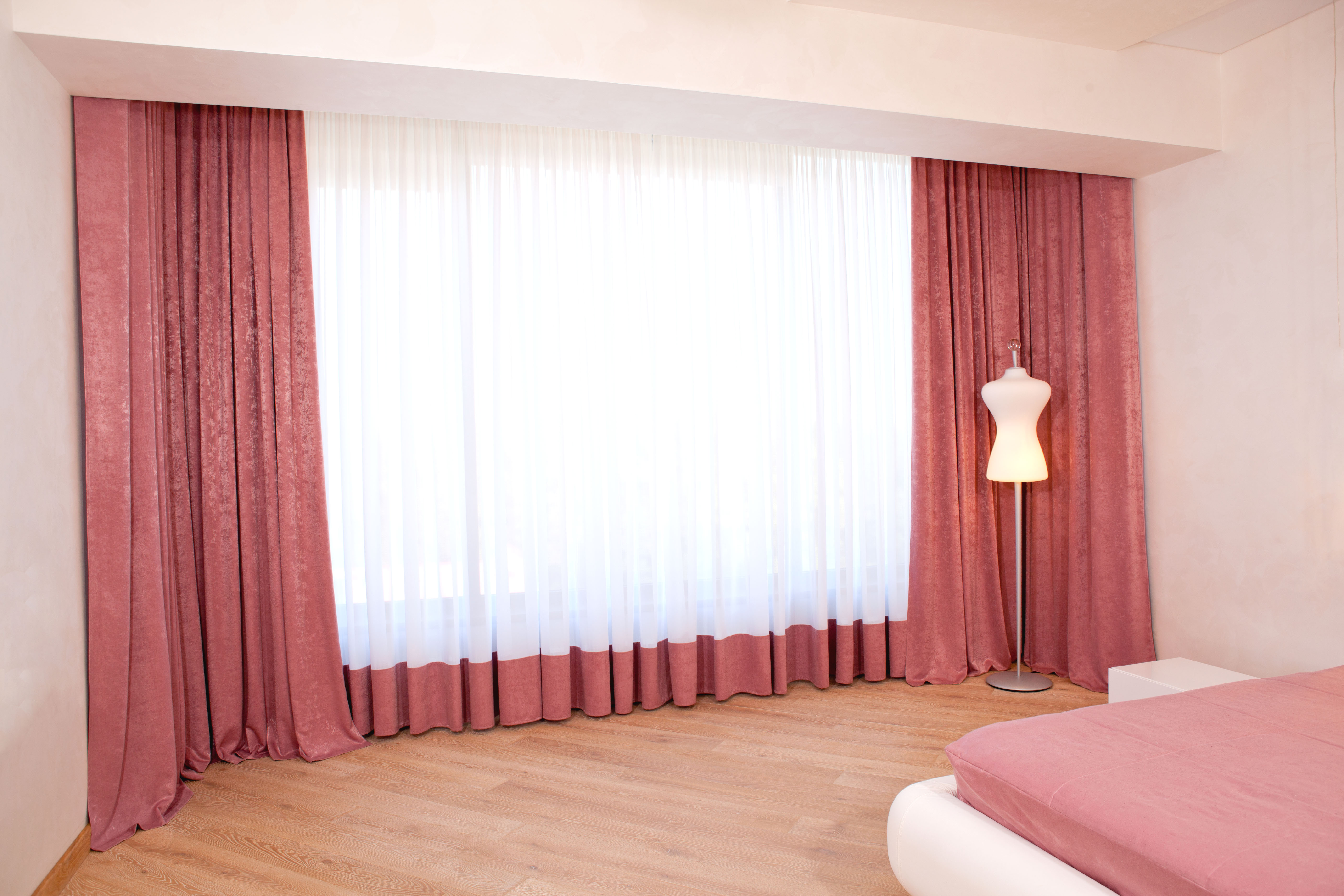 Шторы в спальню ботифини. Автор текстильного дизайна Илья Медведев